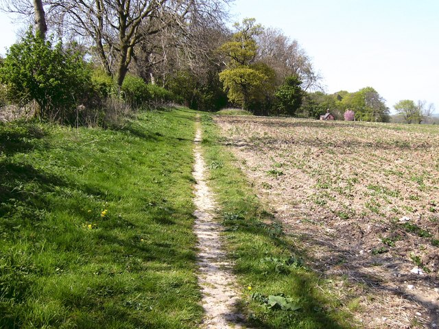 Bridleway to Hawerby Farm The farm buildings can be seen in the distance, and to the left in the trees a small reservoir can be found.